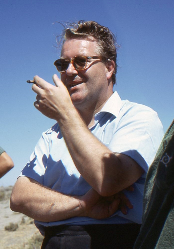 British archaeologist James Mellaart at the Neolithic site of Çatalhöyük, Turkey, which he discovered and excavated between 1958 and 1965. Date of photo unknown. This is a derivative version of File:The British archaeologist James Mellaart in the middle smoking a cigarette.jpg by Omar Hoftun. It was cropped and retouched to make Mellaart the sole subject.